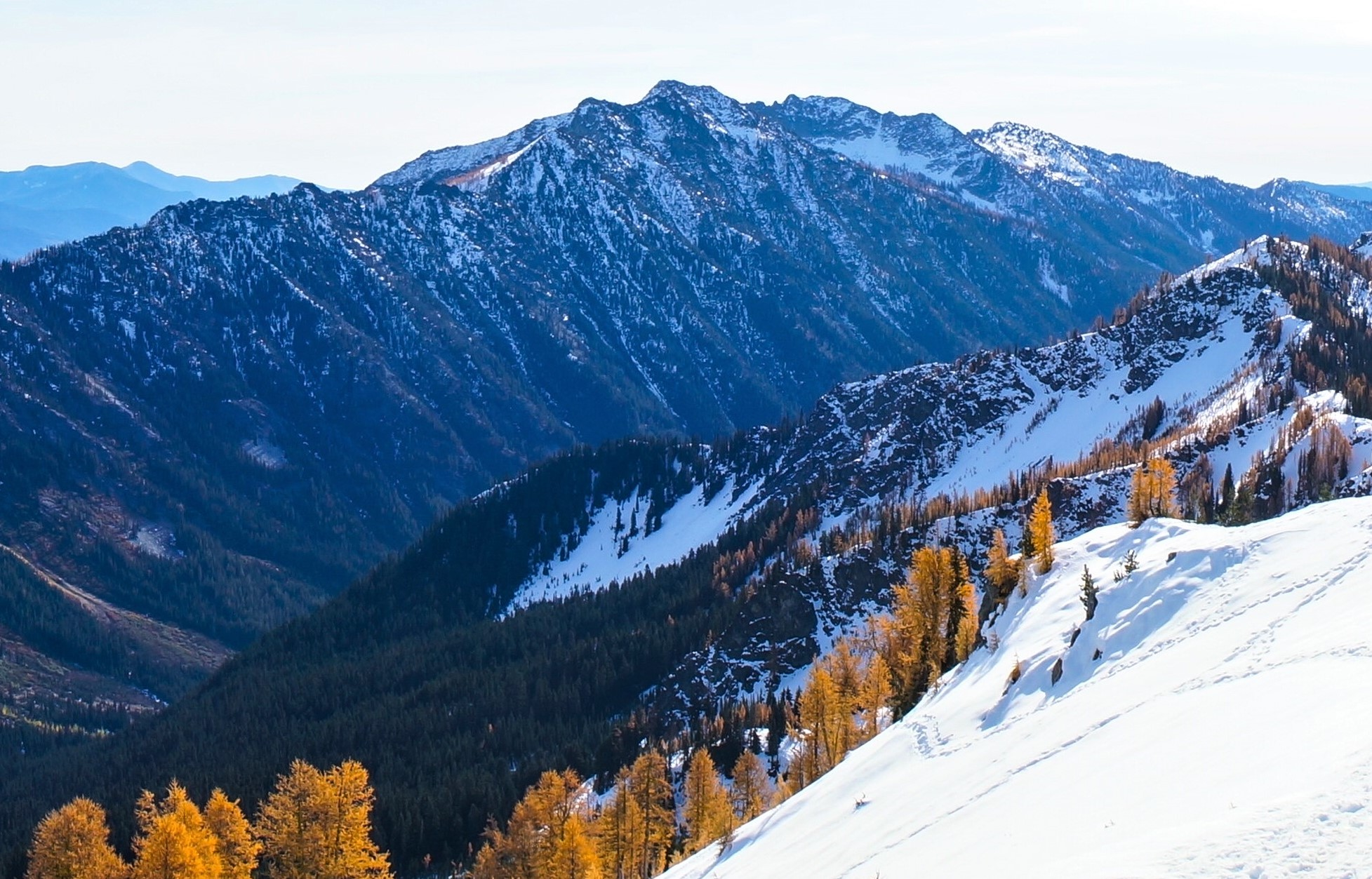 Fifth of July Mountain seen from northwest at Carne Mountain